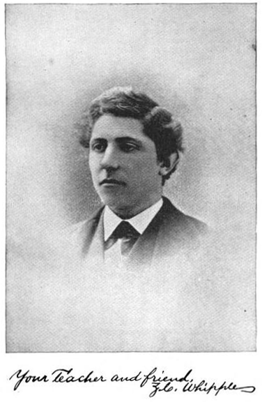 Photo of Zerah C. Whipple with caption in his handwriting: "Your Teacher and friend, Z.C. Whipple"